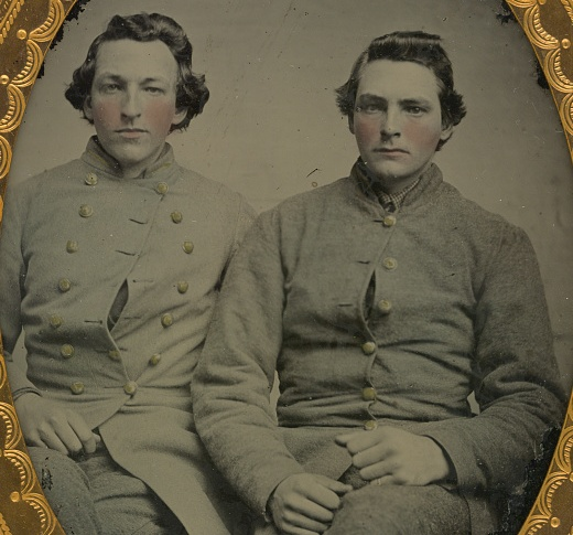 Photograph shows two identified brothers and soldiers, Abel, left, who died of wounds received at Gaines' Mill, Virginia, and Marcus, right, who died of disease at Chimborazo Hospital No. 3, Richmond, Virginia.